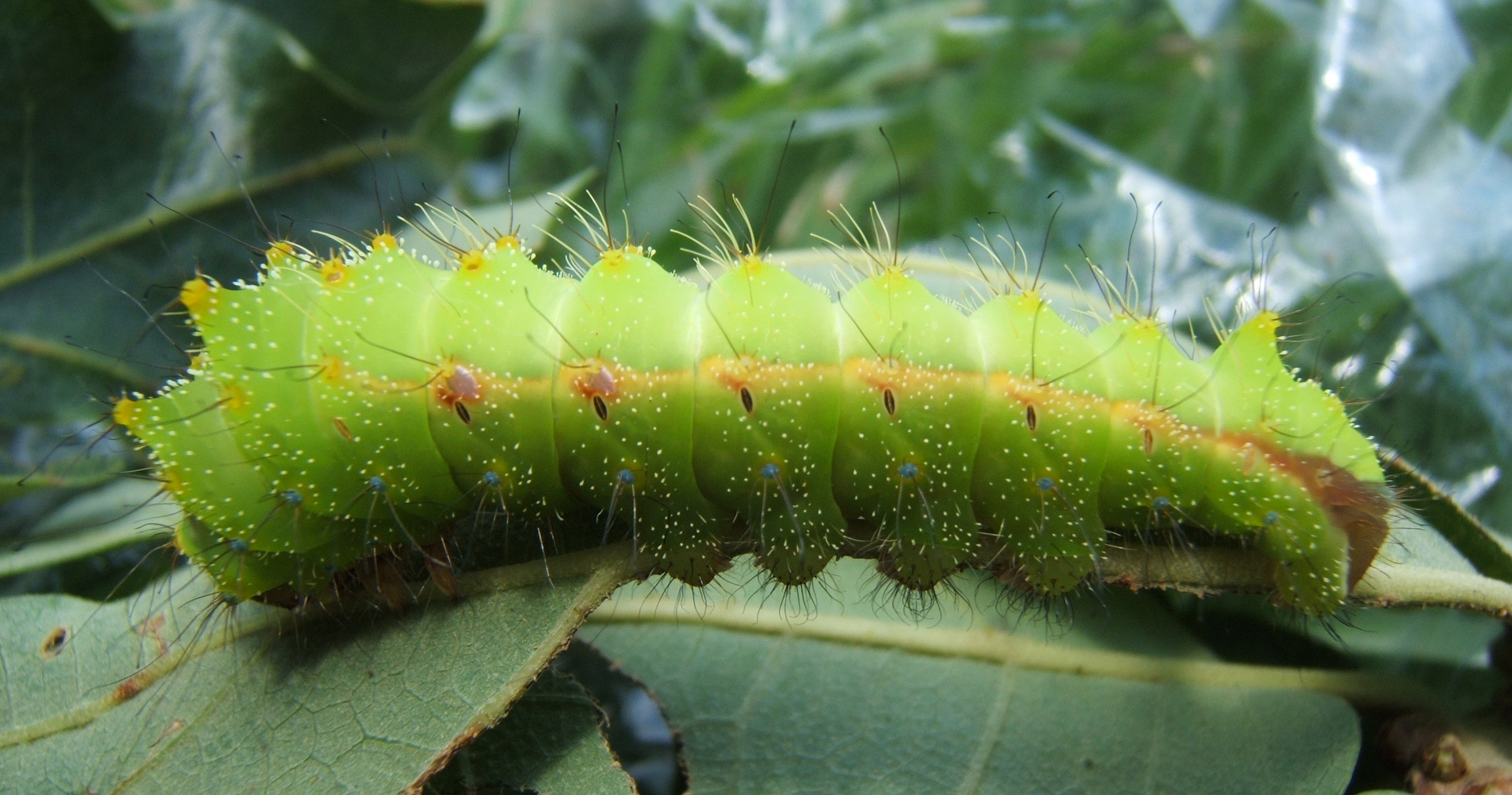 Antheraea pernyi 4th instar larva taken by Shawn Hanrahan. Reared on Quercus (Oak).